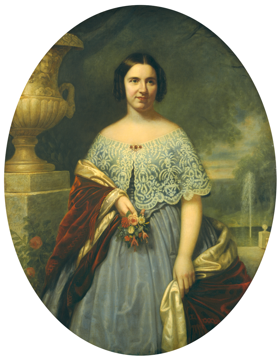 Artist: Francis Bicknell Carpenter Artist Info: American, 1830 - 1900 Title: Lucy Tappan Bowen (Mrs. Henry C. Bowen) Dated: 1859 Classification: Painting Medium: oil on canvas Dimensions: overall (oval): 142.7 x 111.4 cm (56 3/16 x 43 7/8 in.) framed: 179.1 x 147.3 x 11.4 cm (70 1/2 x 58 x 4 1/2 in.) Provenance: The sitter's husband, Henry C. Bowen (1813-1896), New York, and Woodstock, Connecticut; his son, Clarence Winthrop Bowen (1852-1935), New York, and Woodstock, Connecticut; his daughter, Roxana Wentworth Bowen (later Mrs. William Stephen Van Rensselaer and Lady Gordon Vereker, 1895-1968), Valbonne, France; gift 1961 to NGA.